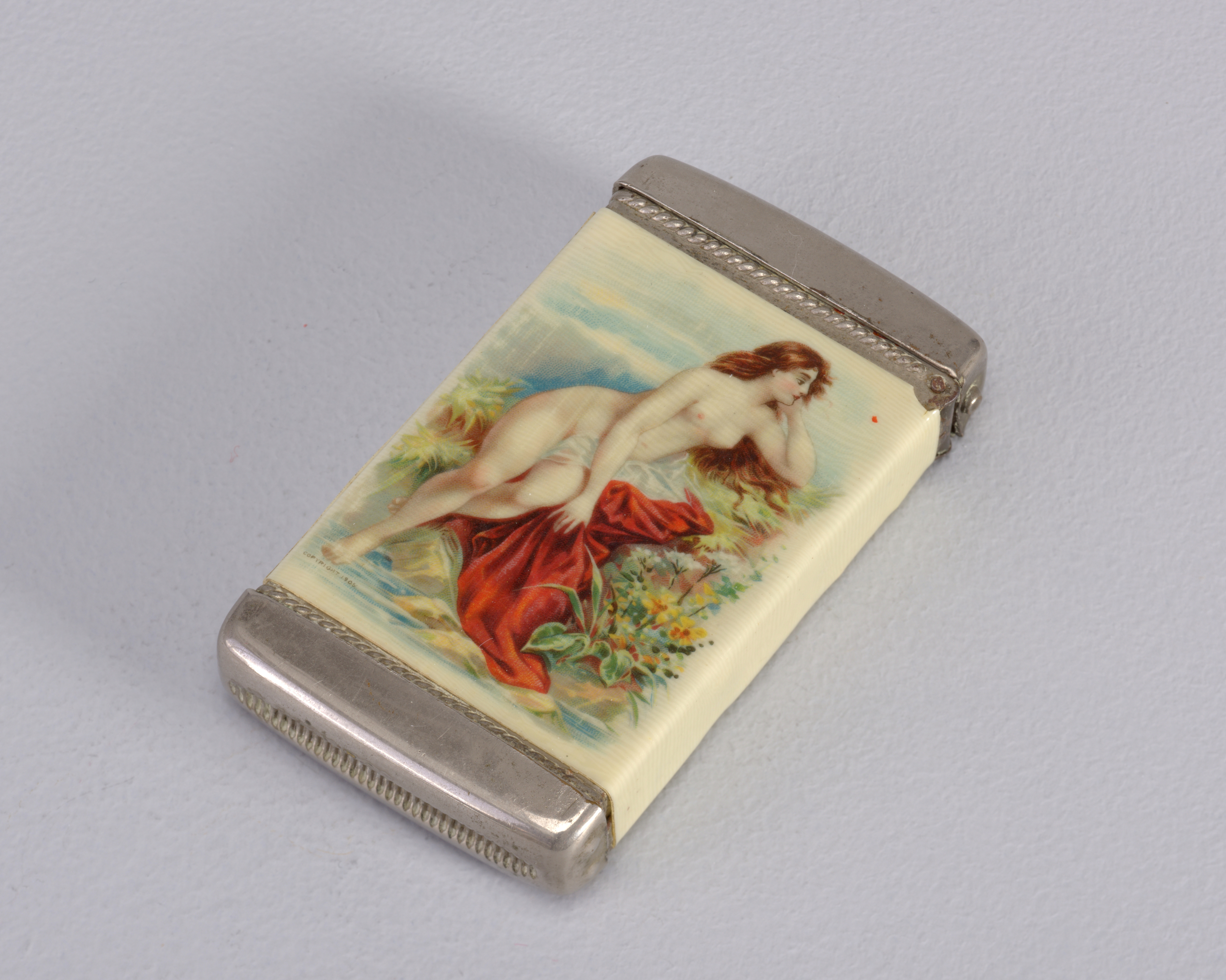 Compliments of National India Rubber Company, Bristol, RI; Patented June 6, 1905